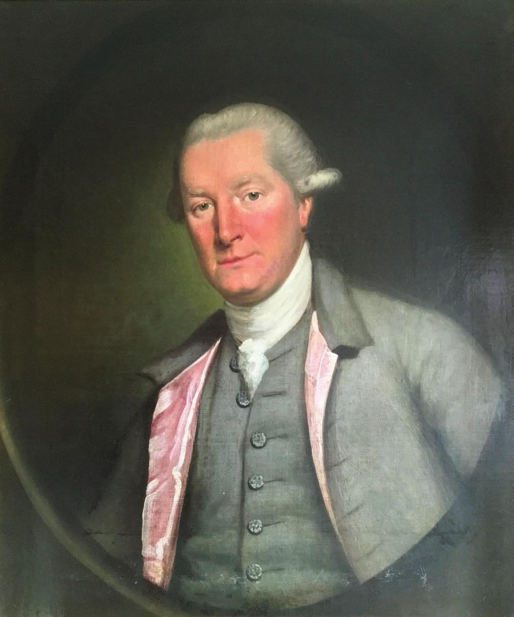 Portrait of James Christie, I (1730?–1803) attributed to Benjamin Vandergucht (1752–1794). Oil on canvas, 74 x 61 cm. Private collection.